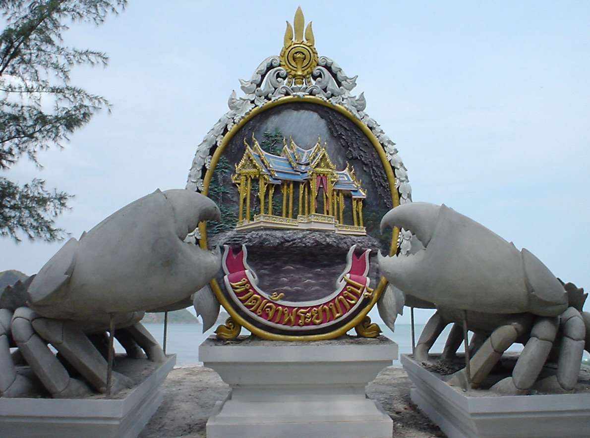 Sign at the beach of Bang Pu in the Khao Sam Roi Yod national park, Thailand. The insignia displays the icon of the park, the Kuha Karuhas pavilion (sala), which is also the provincial symbol of Prachuap Khiri Khan. The text in the sign is หาดเจ้าพระยาบางปู - Hat Chaophraya Bang Pu, which is simply the name of the beach (หาด/Hat is Beach). Photo taken by User:Ahoerstemeier on January 12 2005.